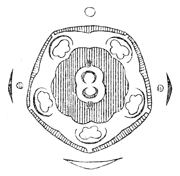 Diagram of a flower of Frangula alnus (Rhamnaceae)